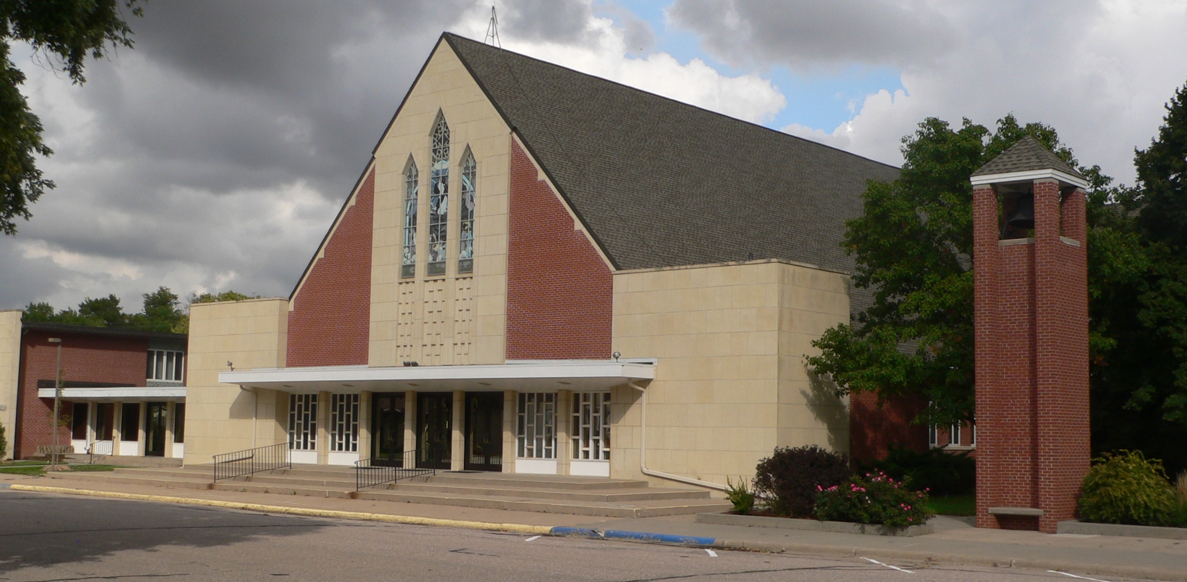 Bethesda Mennonite Church in Henderson, Nebraska; seen from the southwest.